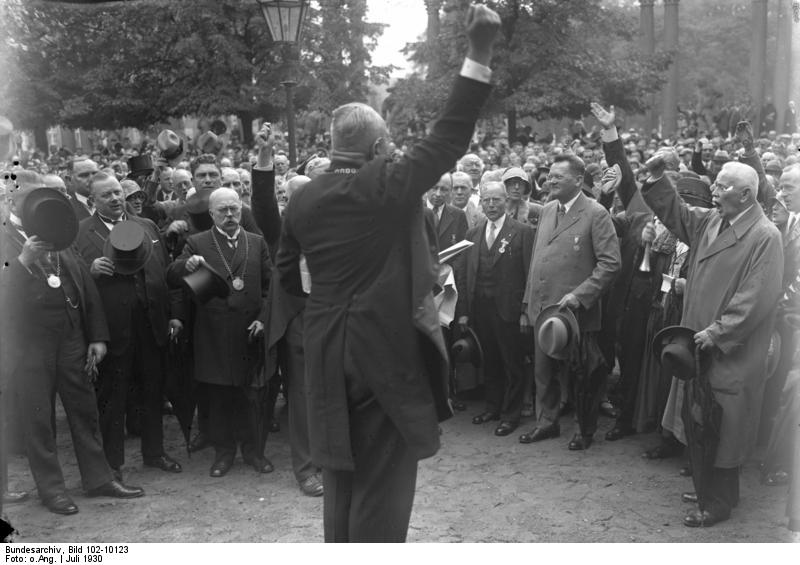 Description:A large rally by the German-American Steuben Society was held at the Steuben Monument in Potsdam, the only Steuben monument in Germany, for the 200th birthday of the German-American General Friedrich von Steuben. Thousands attended this uplifting celebration. The Oberbürgermeister (Lord Mayor) of Potsdam, Ullrich Rauscher, leads an enthusiastic cheer at the foot of the monument.Depicted: Rauscher, Dr. Arno: Lord Mayor of Potsdam, Germany